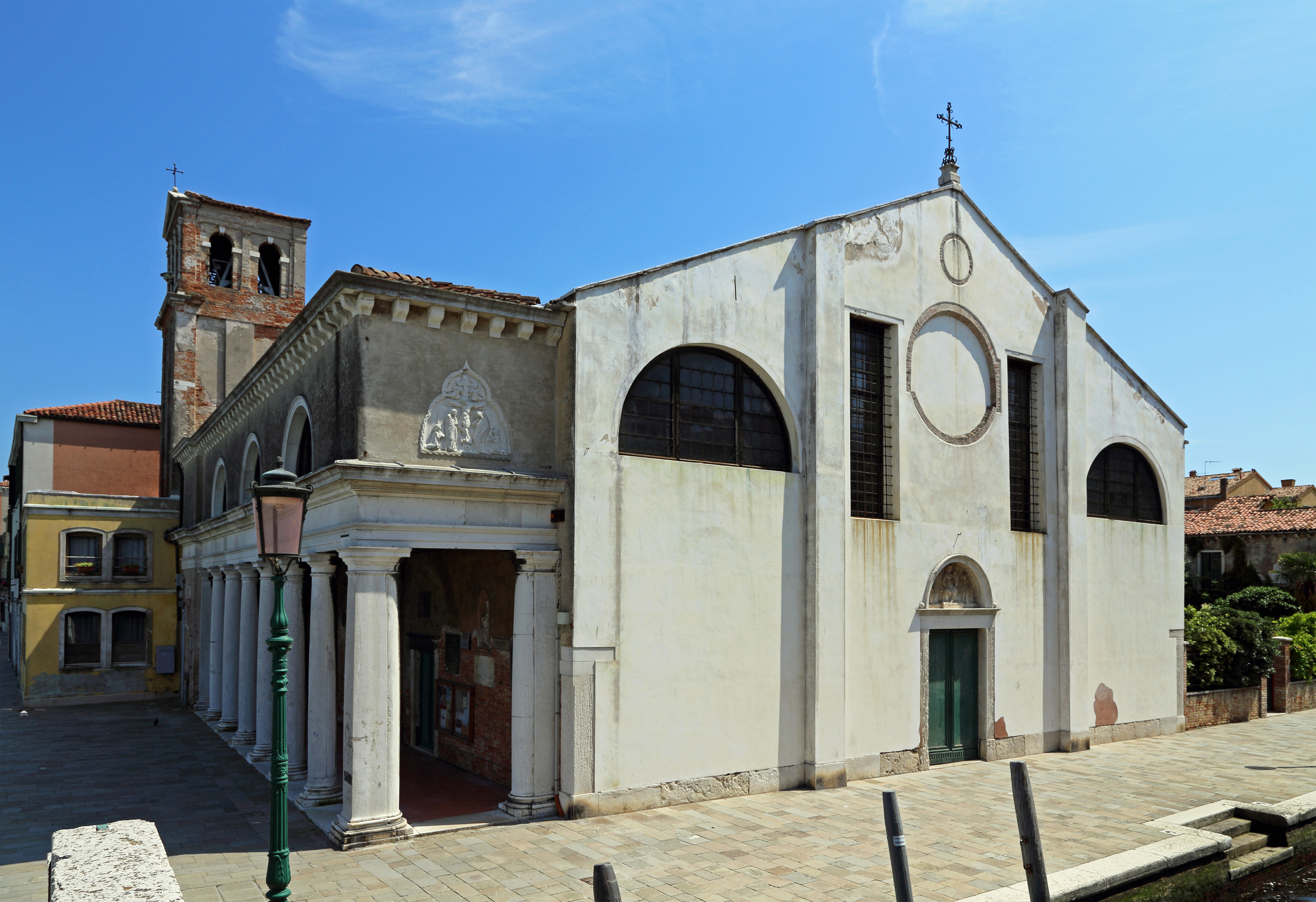 Venice (Italy): Sant'Eufemia church